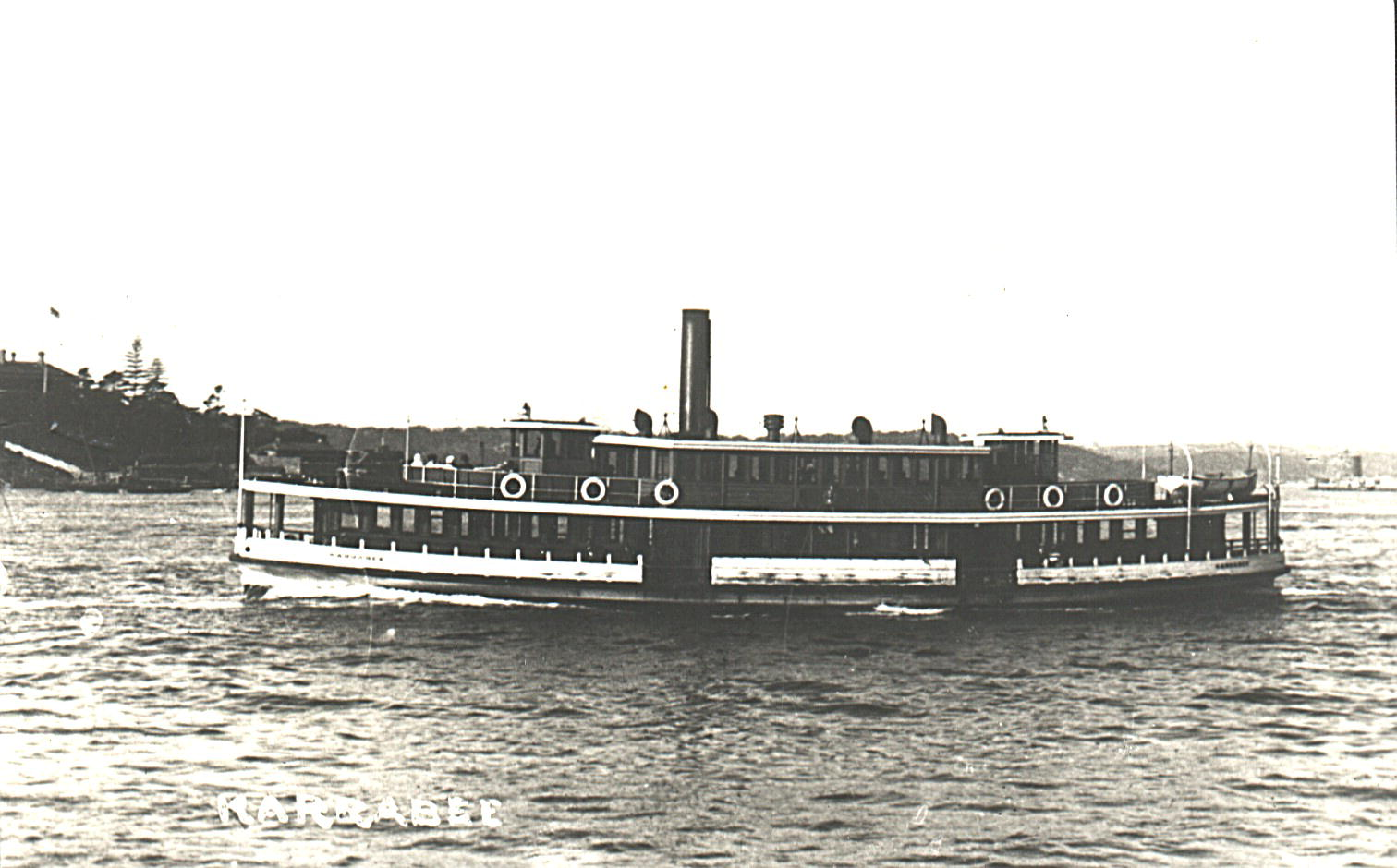 File 083/083018 DATE c 1920s. RECORDSERIES Sydney Reference Collection CITATION Graeme Andrews 'Working Harbour' Collection: 83018. Dufty collection. PROVENANCE City of Sydney Archives NOTES S105211